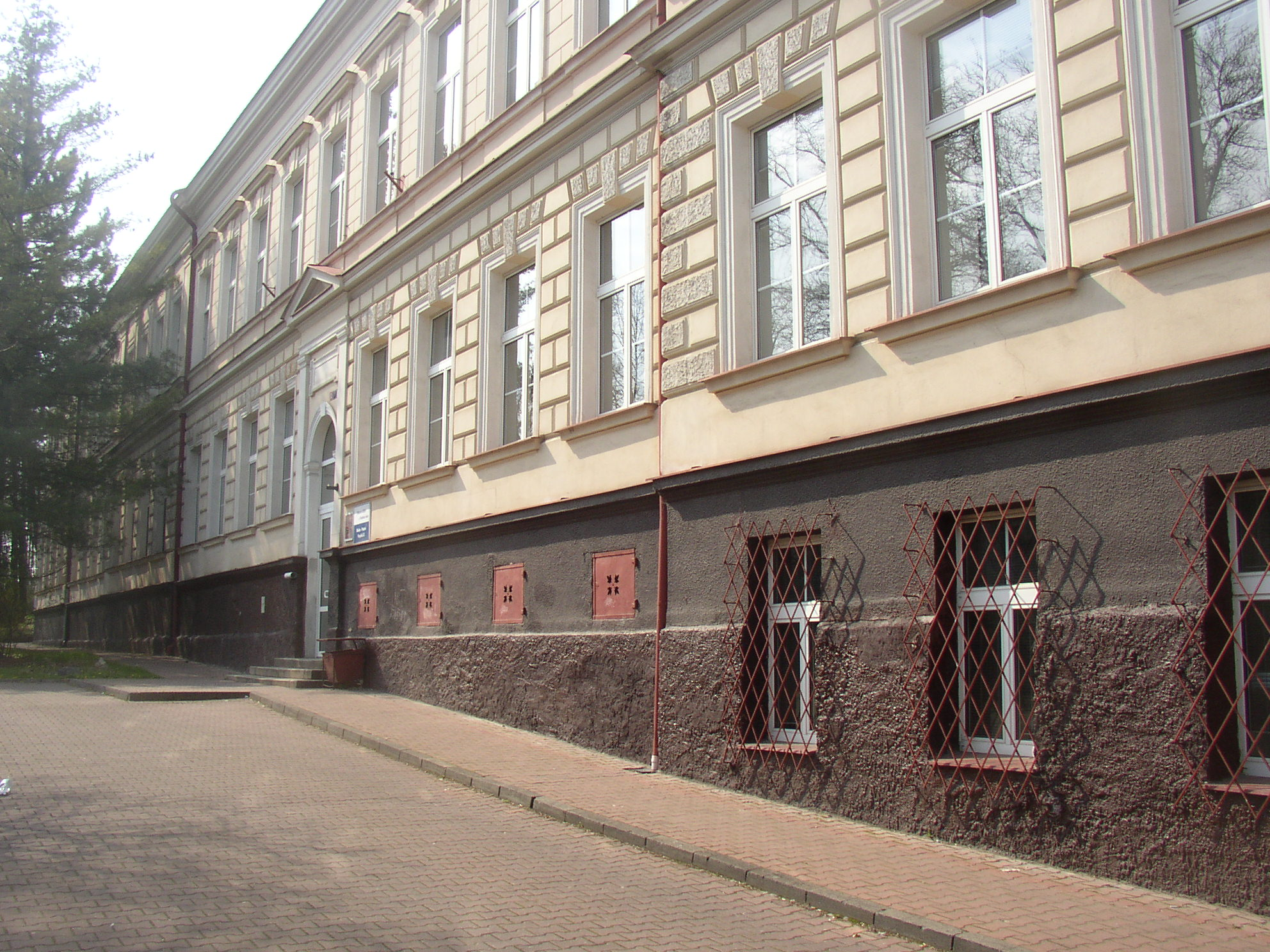 Vocational secondary school in Vrapice, a suburb of Kladno city, Czech Republic.